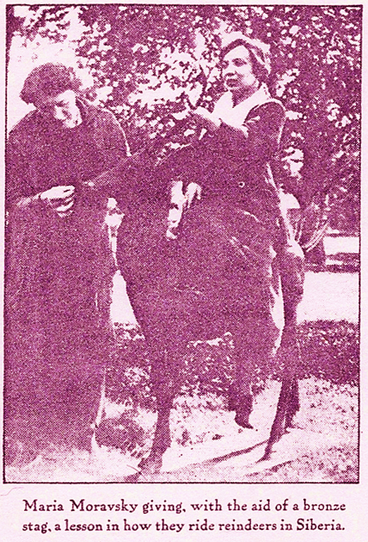 A photograph of Maria Moravsky (on horseback) from an unknown date.